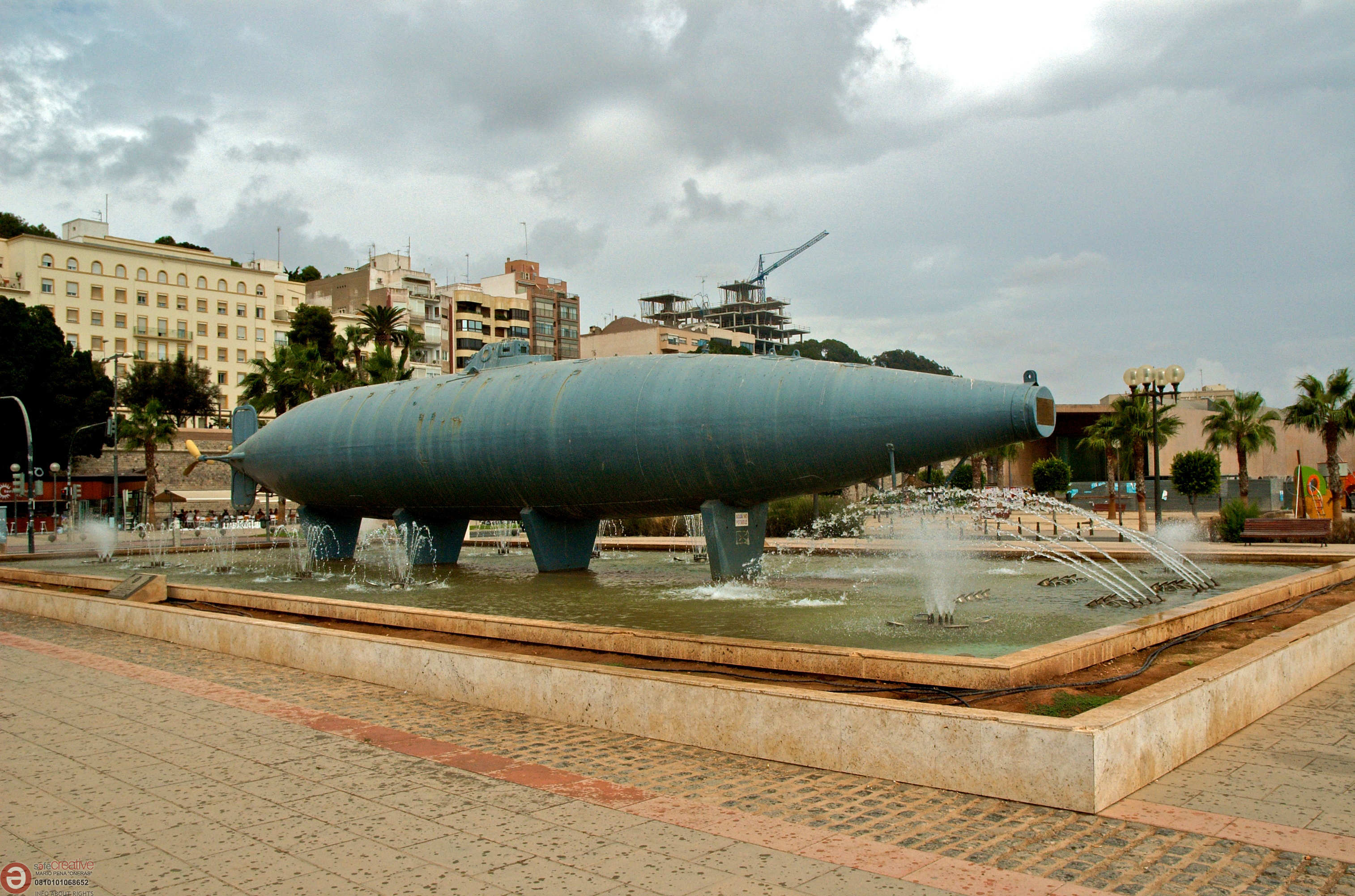 Photograph of Peral submarine, Cartagena, from right front.